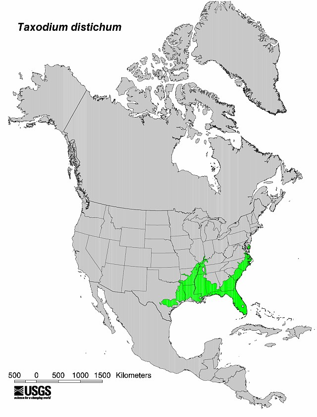 Flora distribution map Bald Cypress (Taxodium distichum) tree. Map showing the native range of the North American species.